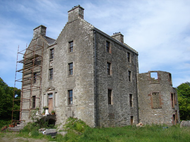 Ravenstone Castle. Substantial mansion house in course of restoration after years of dereliction. Constructed from 1773, Ravenstone incorporated remains of a C16 tower; it was extensively altered during the C18. Also see 818987.